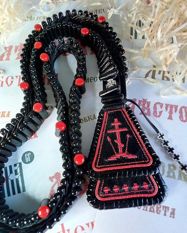 150 steps Lestovka for reading the Mother of God rule